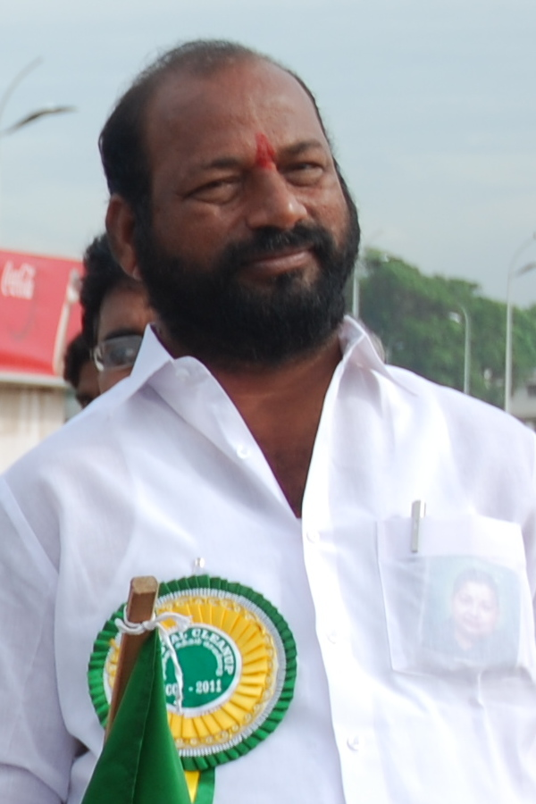 The U.S Consulate Chennai celebrated its two-year anniversary on Facebook with U.S. Consul General Jennifer U.S. Consul General Jennifer McIntyre commemorated World U.S. Consul General Jennifer McIntyre joined actor Vivek, Ministers K. P. Munusamy and T. K. M. Chinnayya, Mylapore MLA R. Rajalakshmi, and Indian Maritime Foundation Vice President and Rear Admiral (retired) K.R. Srinivasan – as well as thousands of volunteers – at the launch of the International Coastal Clean Up 2011 in Chennai on Saturday, September 3, 2011. Noting her background growing up near the Chesapeake Bay in Maryland and how the issue of clean waterways is “very near and dear” to her, CG McIntyre said she was “thrilled to be a part of this effort.” According to news reports, the event netted over 35,000 kg of coastal debris.